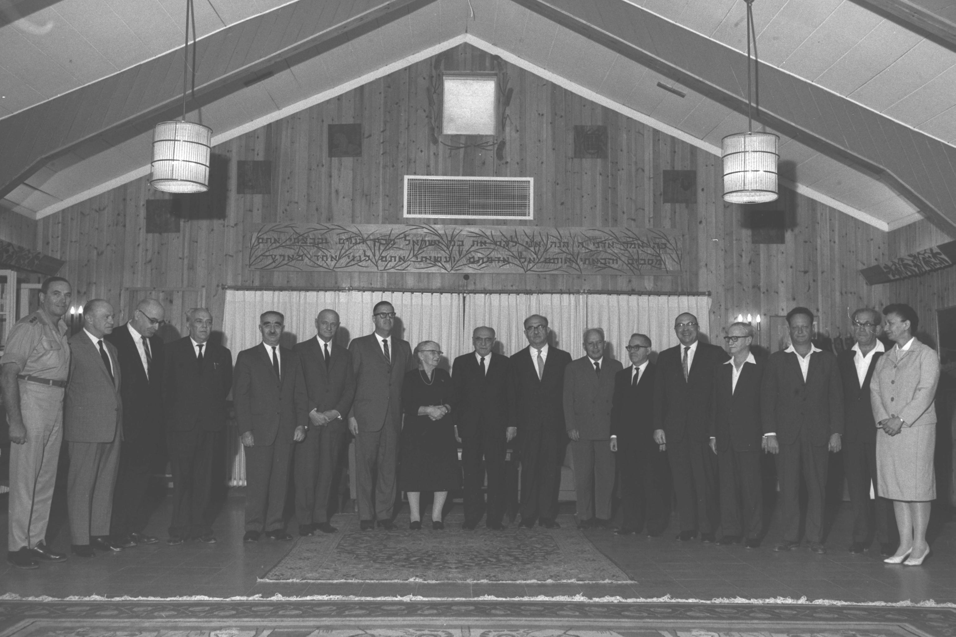 PRES. AND MRS. SHAZAR WITH MEMBERS OF THE GOVERNMENT POSING FOR A PICTURE ON THE OCCASION OF THE PRES.75TH BIRTHDAY AT BEIT HANASSI IN JERUSALEM.